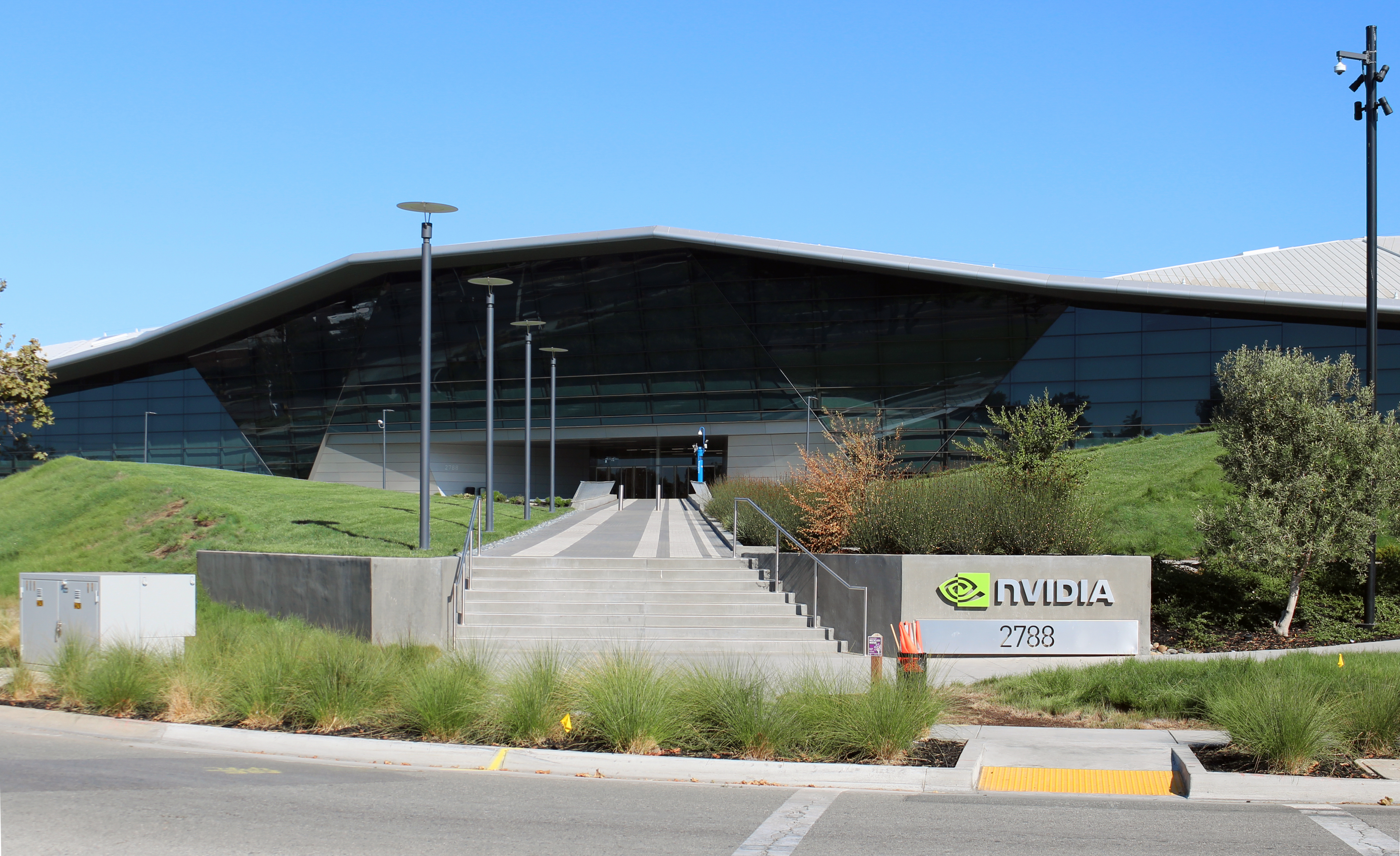 Nvidia headquarters in Santa Clara, California. Photographed by user Coolcaesar on August 4, 2018.